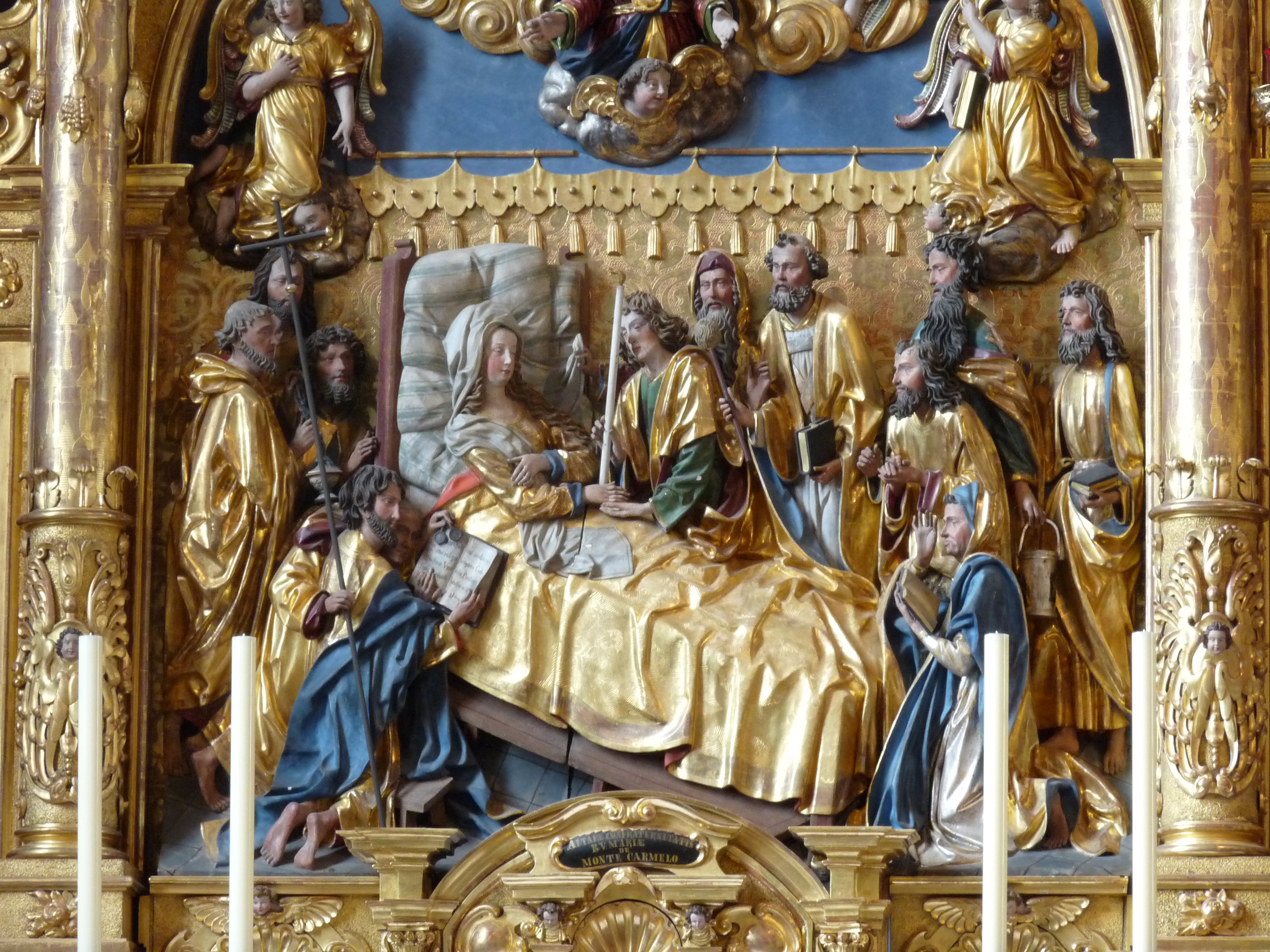 Altar piece from the XVIth century after Martin Schongauer. In the church of St. Leodegar and Mauritius in Luzern (Switzerland).